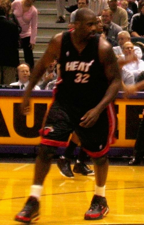 Shaquille O'Neal of the Miami Heat.